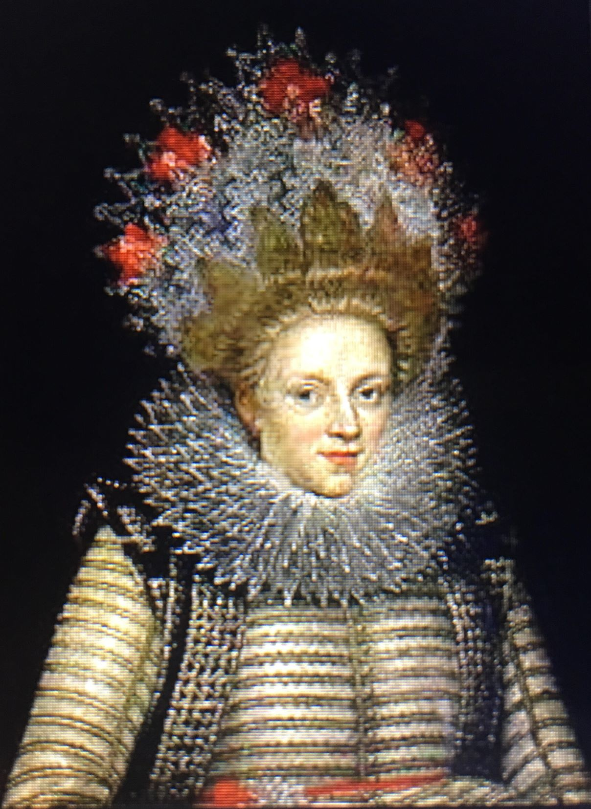 Foto della Viscontessa Falkland